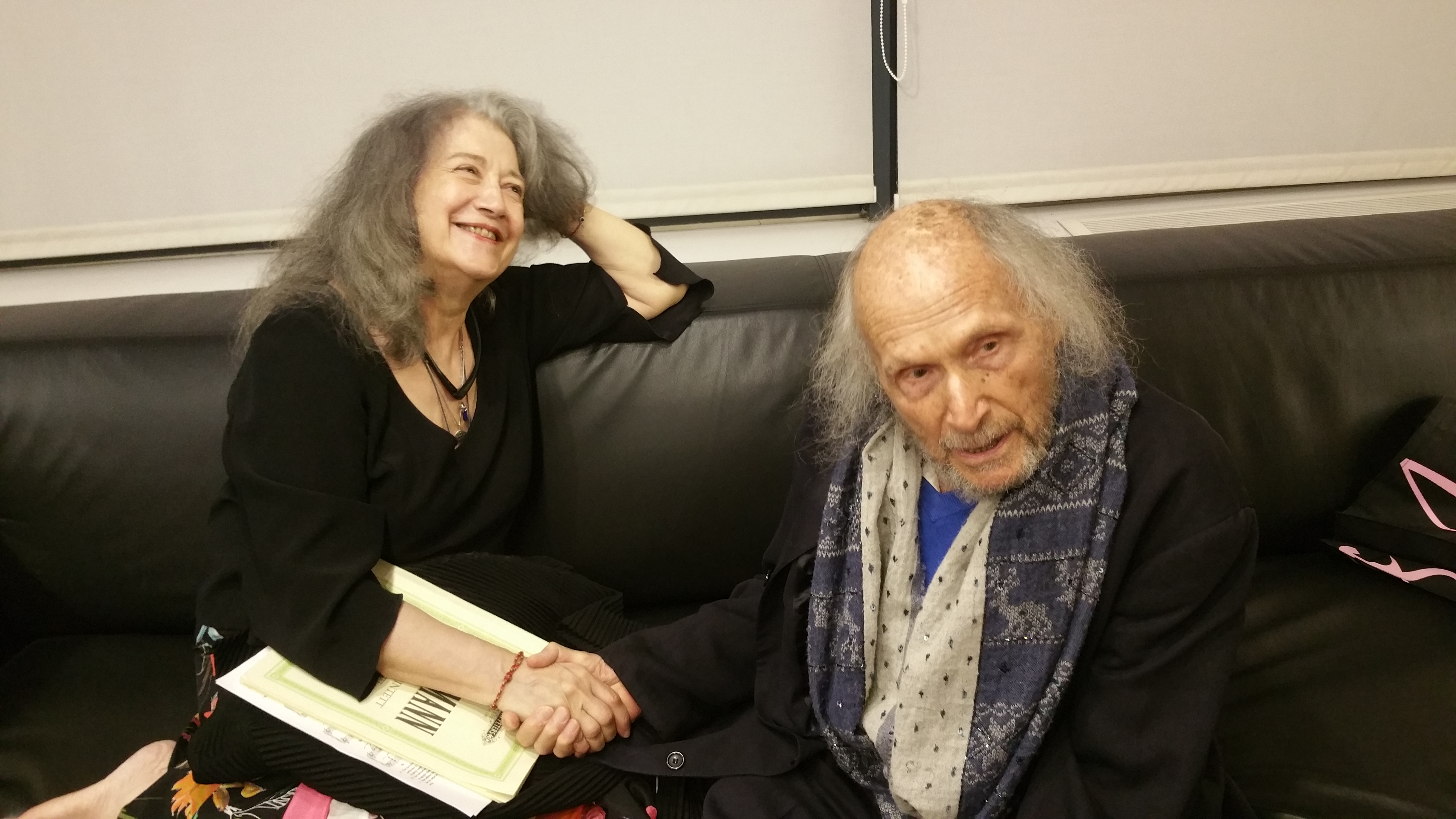 Pianist Martha Argetich & violinist Ivry Gitlis, after a chamber concert, 11/10/18, opening of the season concert at the Israel Philharmonic Orchestra 2018-2019, Tel Aviv, Israel.